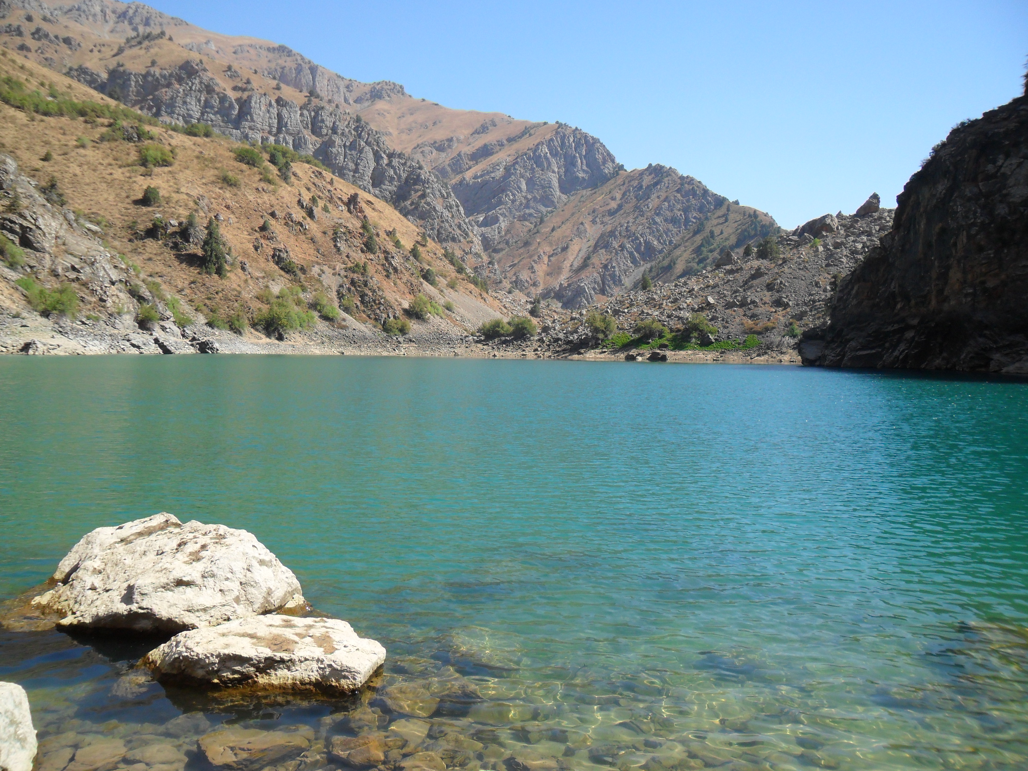 Urungach lake. Tashkent area, Uzbekistan